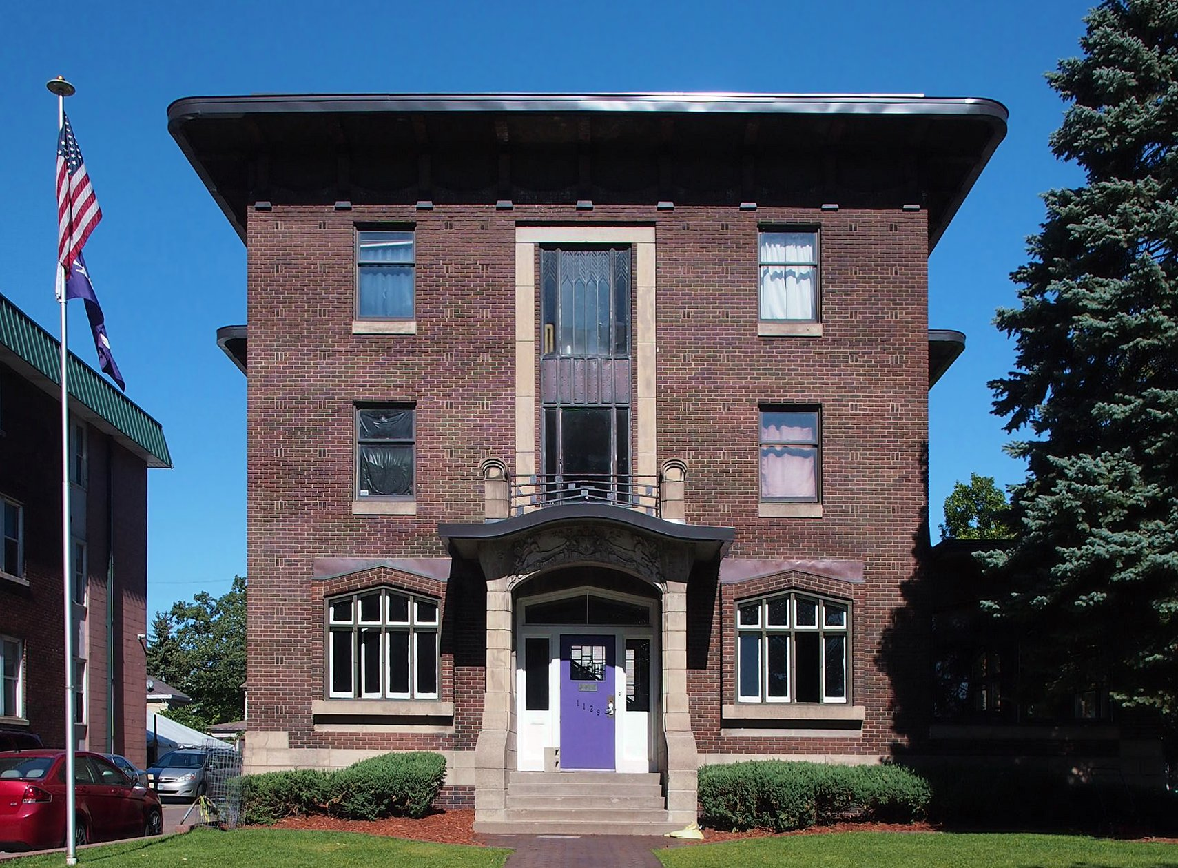 Phi Gamma Delta Fraternity House, 1129 University Ave SE, Minneapolis, Minnesota, USA. Viewed from the southwest.